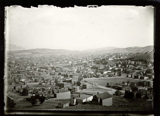 Historic photo of Eureka Valley